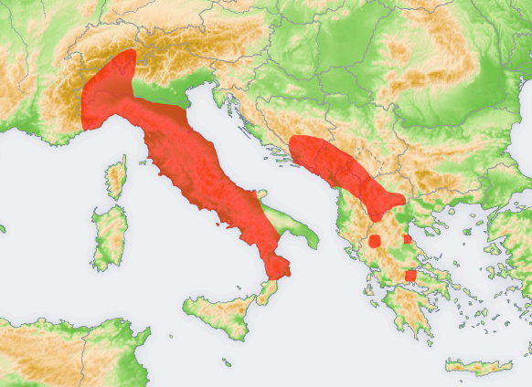 Range of Talpa caeca (Blind Mole)